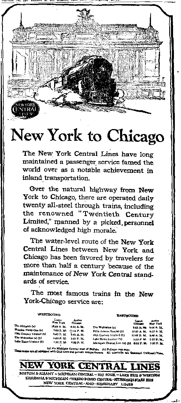 Newspaper ad for the 20th Century Limited from 1921. Cropped, converted to black and white png using GIMP by the uploader.